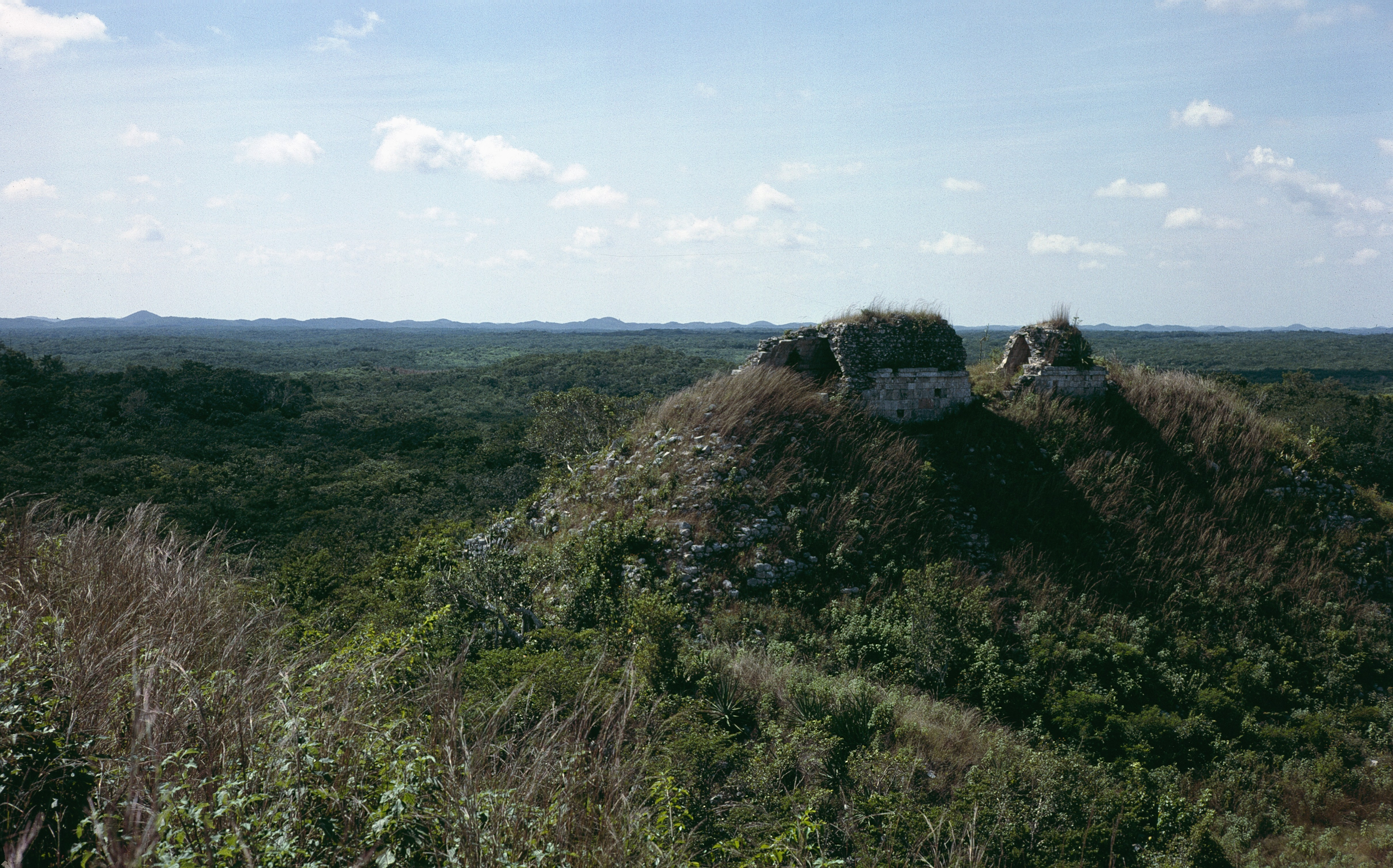 Uxmal, Yucatan, Mexico: South Pyramid